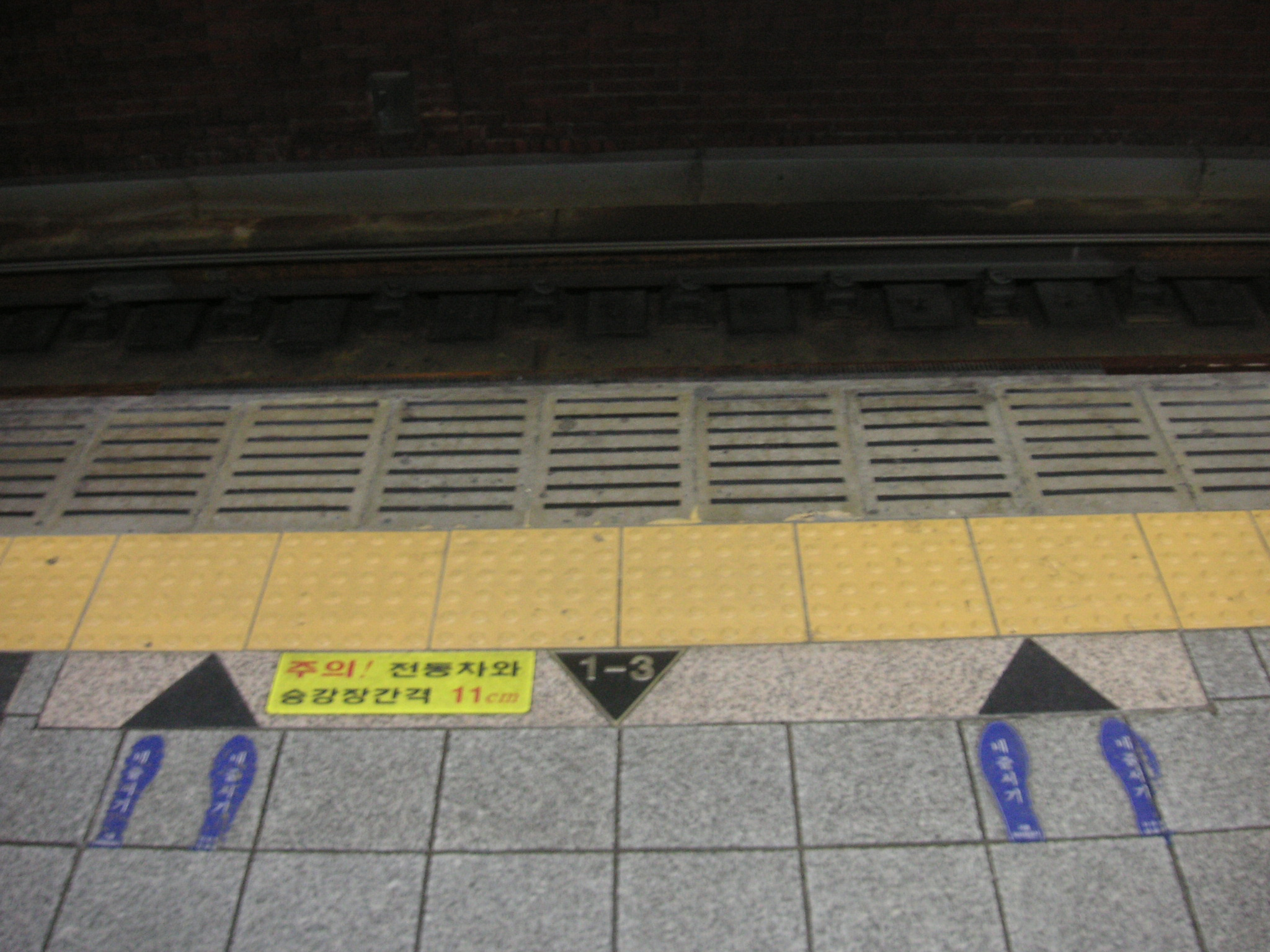 Took this picture myself for use in Wikipedia.